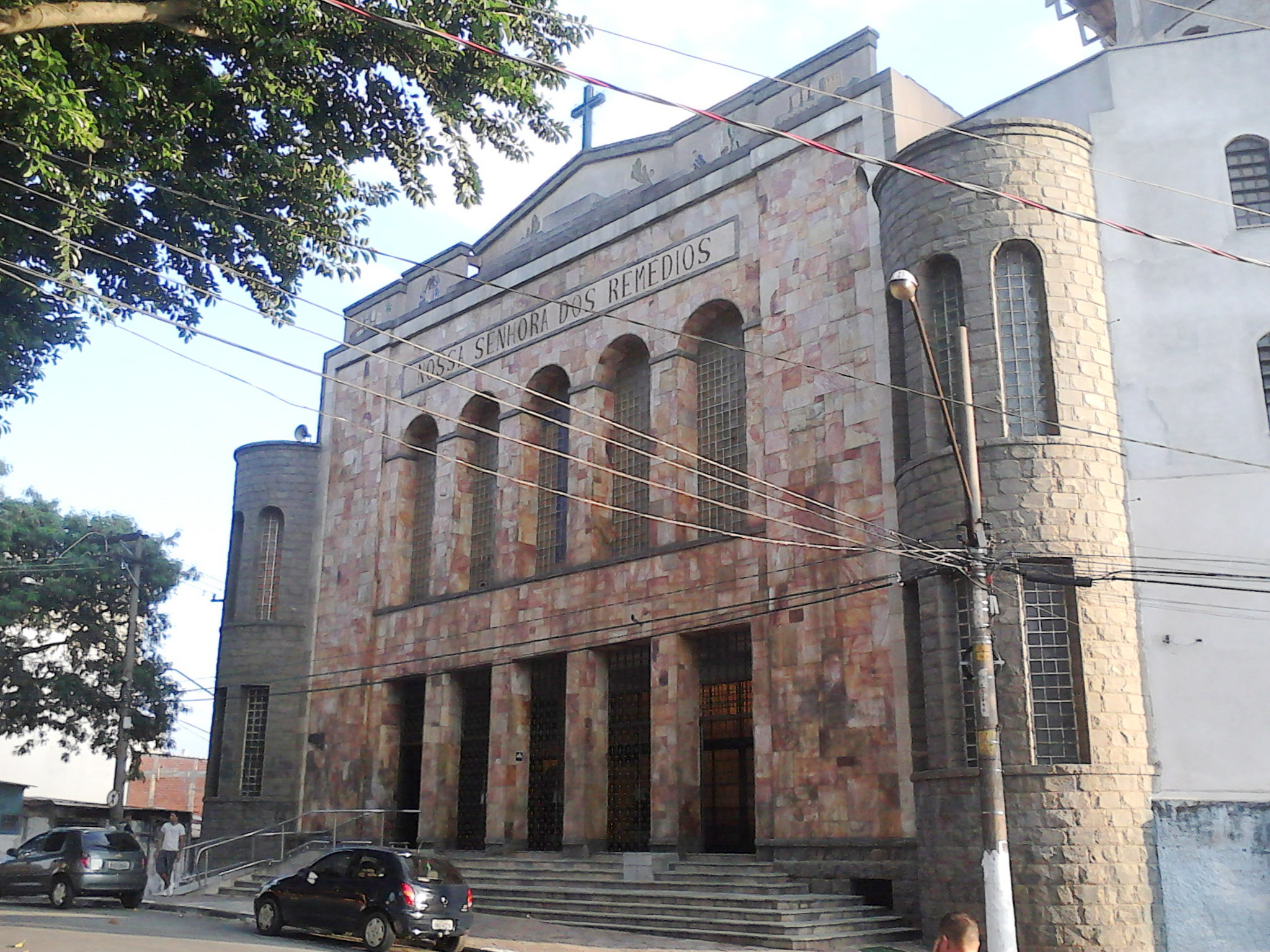 Church of Our Lady of Remédios, in Osasco, São Paulo, Brazil.